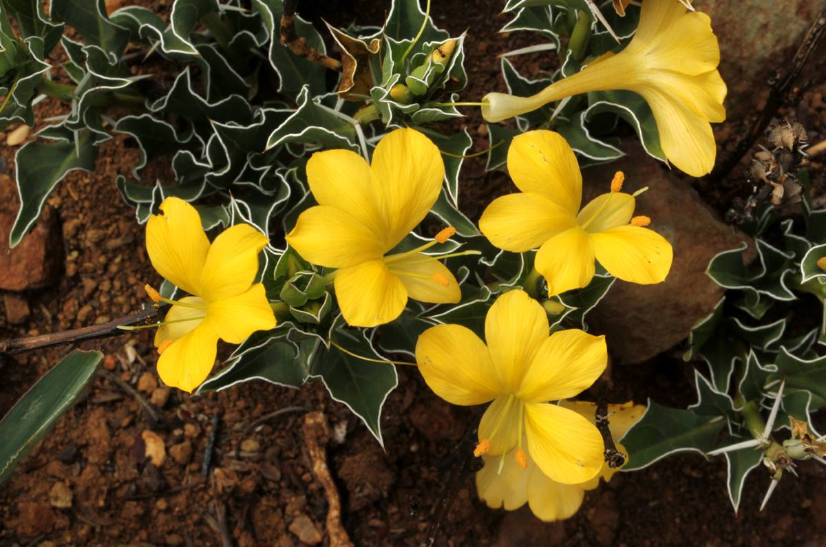 Barleria randii S.Moore- "dry Acacia woodland around Bulawayo (Shabalala Nature Reserve)", Zimbabwe